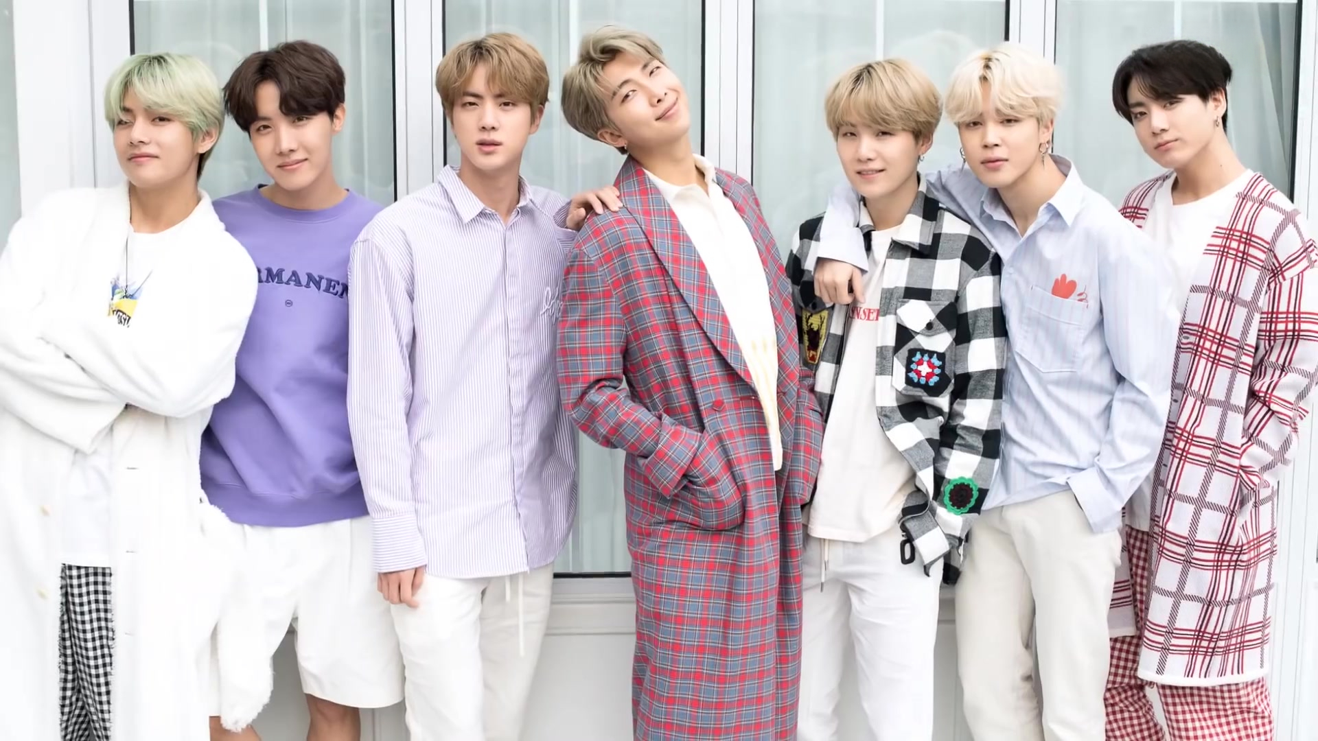 BTS for Dispatch White Day Special, 27 February 2019